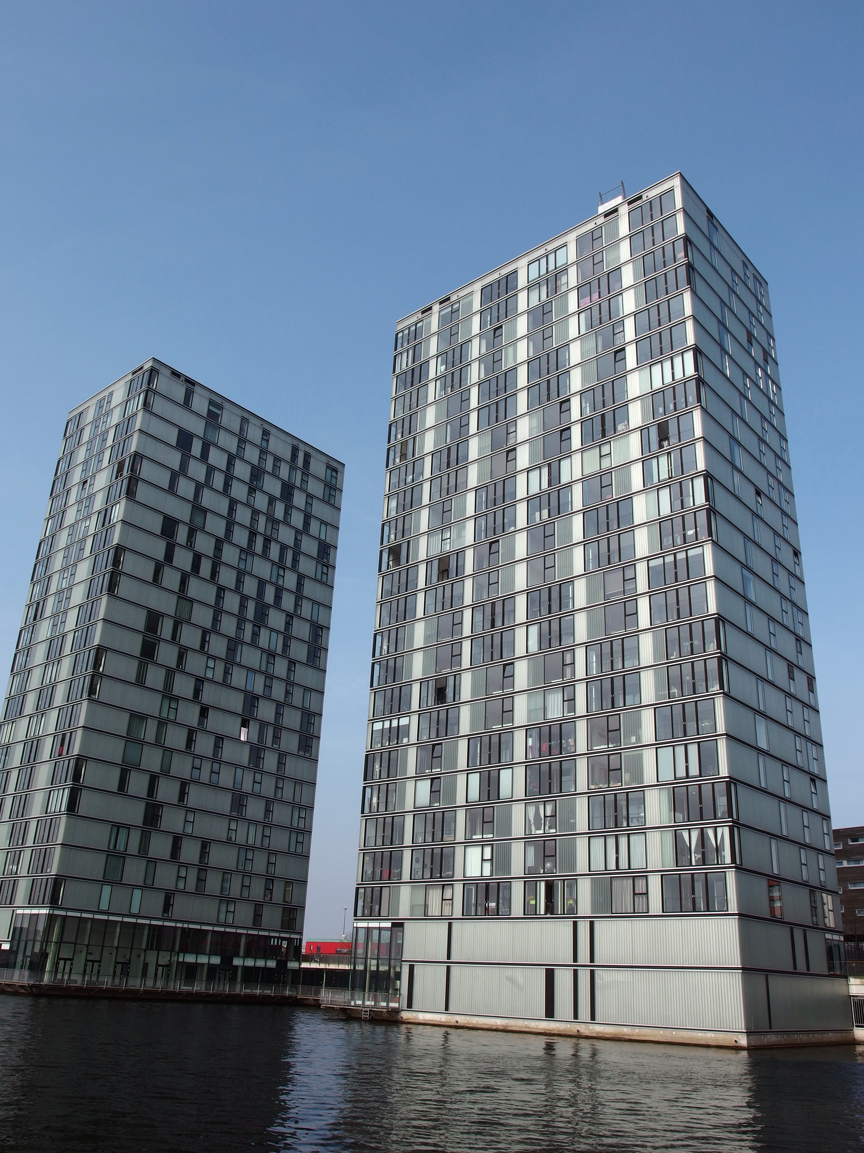 2015-03-16 in Almere. Side by Side buildings